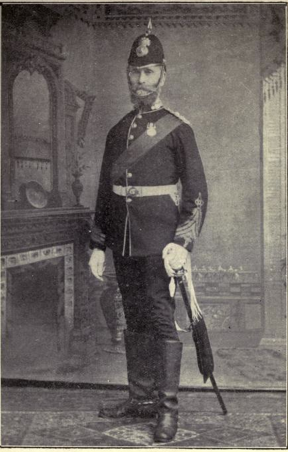 Lieutenant-Colonel James J. Bremner commander of the Halifax Provisional Battalion that served in the North West Rebellion